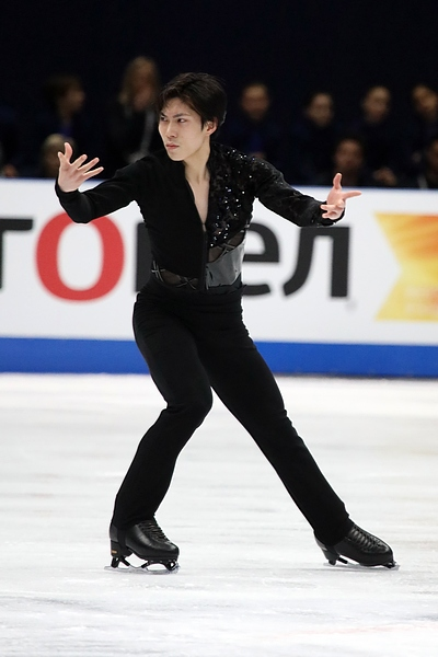 Photos – World Championships 2018 – Men (Keiji TANAKA JPN – 13th Place)